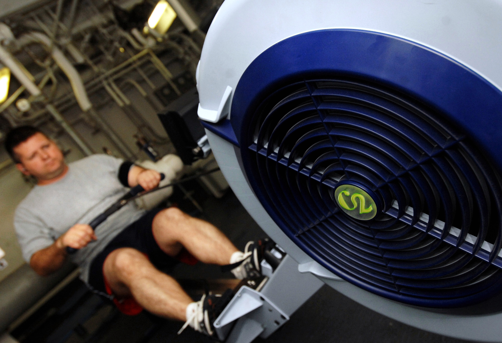 ATLANTIC OCEAN (March 29, 2007) – Lt. Shaun Estep of Strike Fighter Squadron (VFA) 37, the "Raging Bulls", prepares for the physical readiness test (PRT) on a rowing machine aboard Nimitz-class aircraft carrier USS Harry S. Truman (CVN 75). Truman is underway conducting Tailored Ship's Training Availability, a standard used to evaluate a ship's readiness for deployment. U.S. Navy photo by Seaman Kevin T. Murray Jr. (RELEASED)